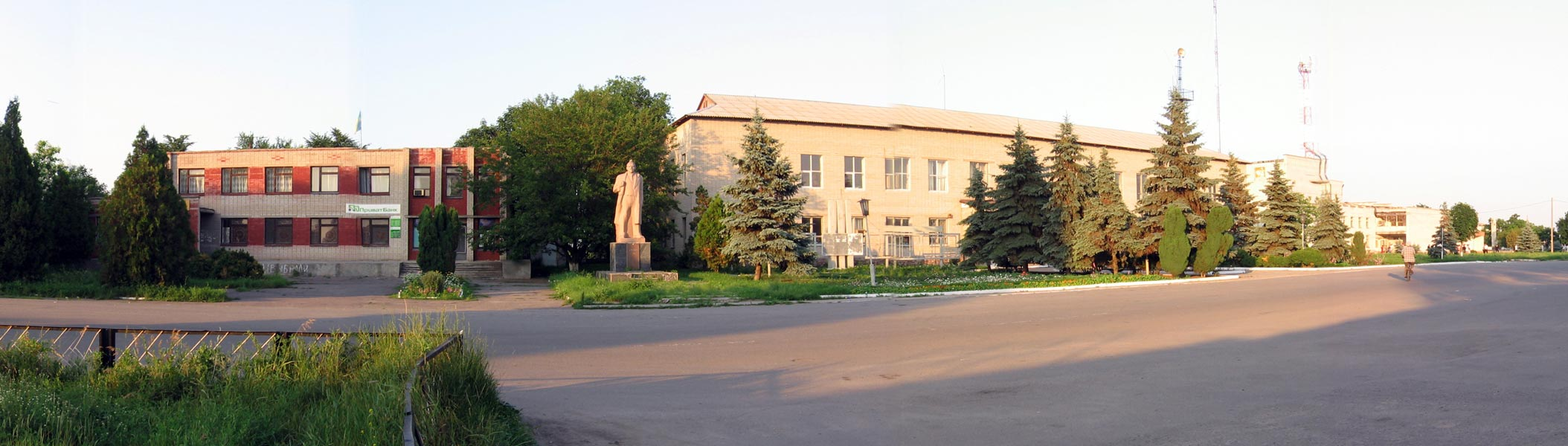 Center of Alexandrovka